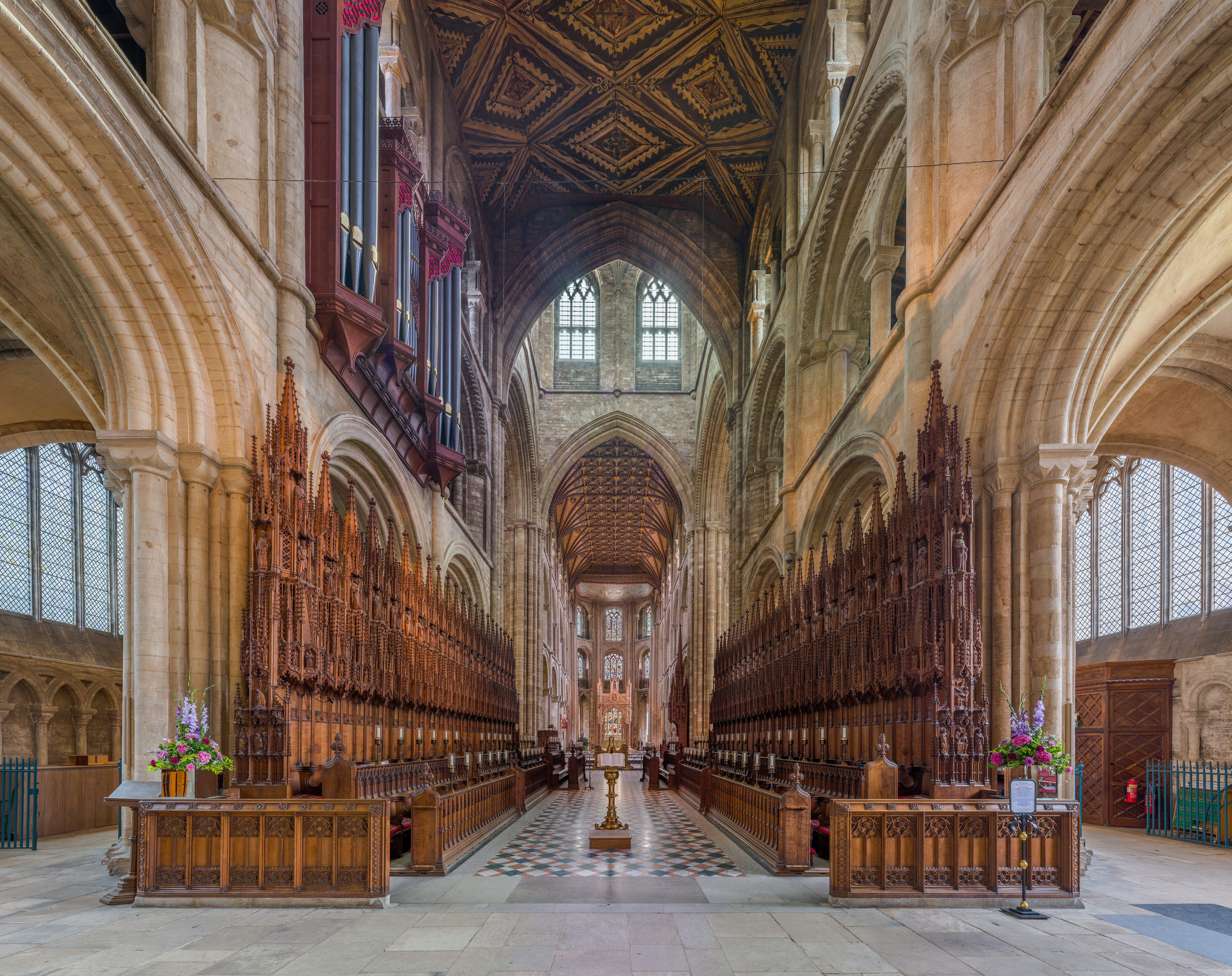 The choir of Peterborough Cathedral looking east in Cambridgeshire, England.